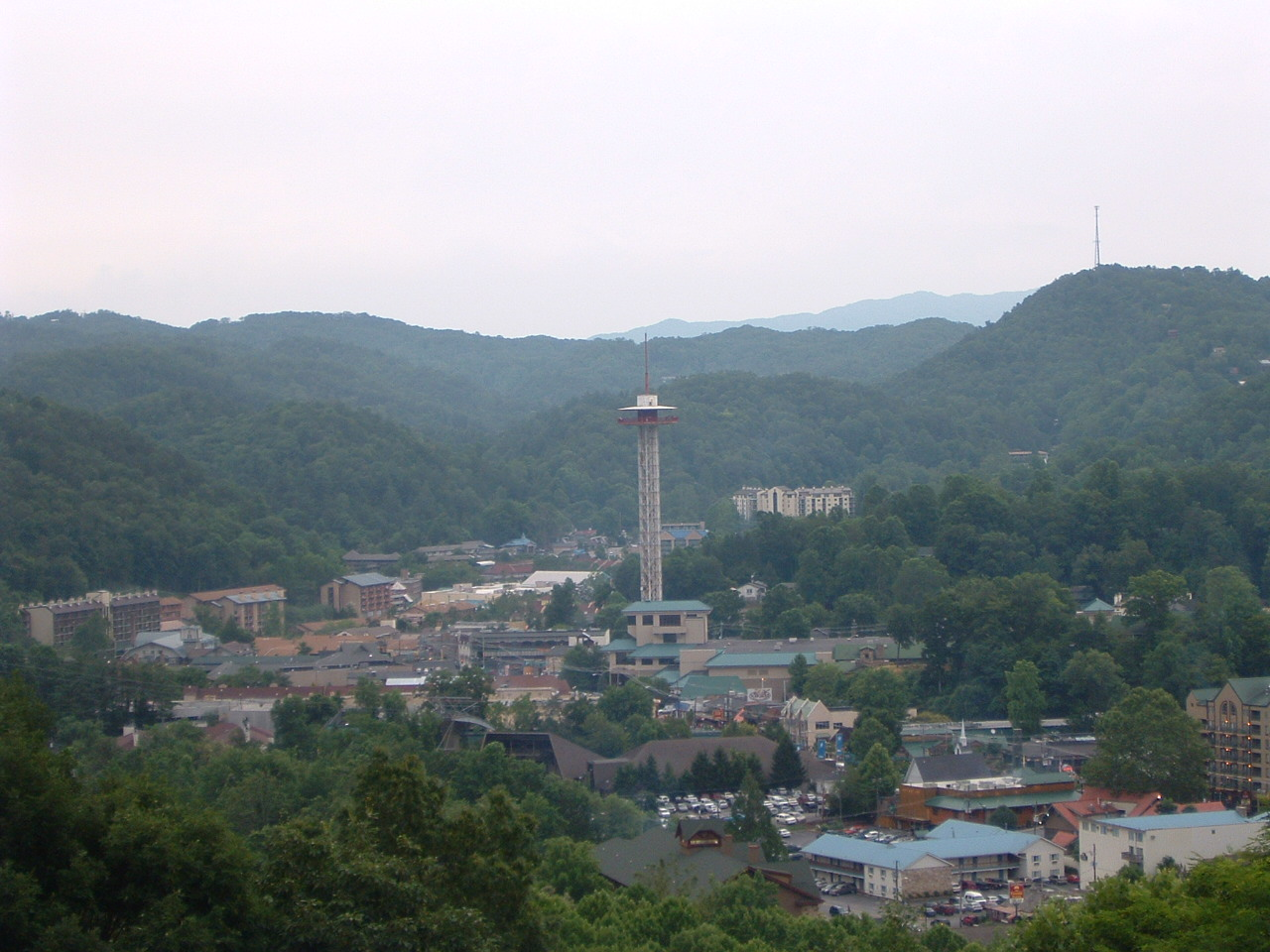 Gatlinburg, Tennessee has burgeoned into a popular tourist destination since the formation of the Great Smoky Mountains National Park, which borders the community.